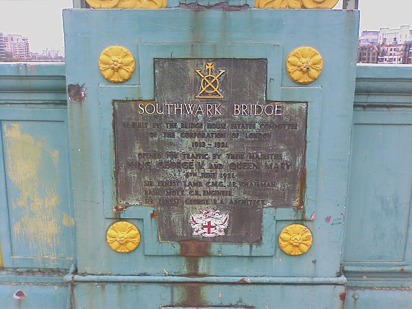 A photograph of the plaque on the West side of Southwark Bridge, London